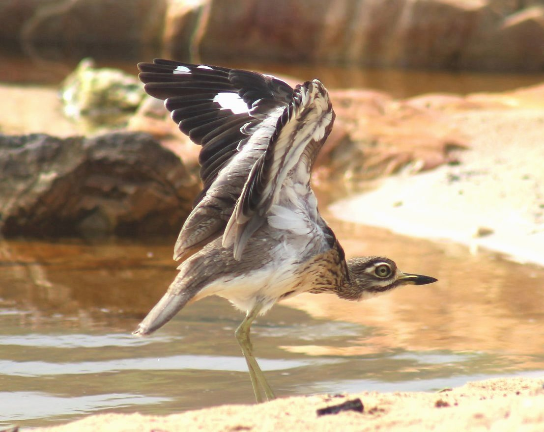 Burhinus vermiculatus - Water dikkop - Nature's Valley, South Africa